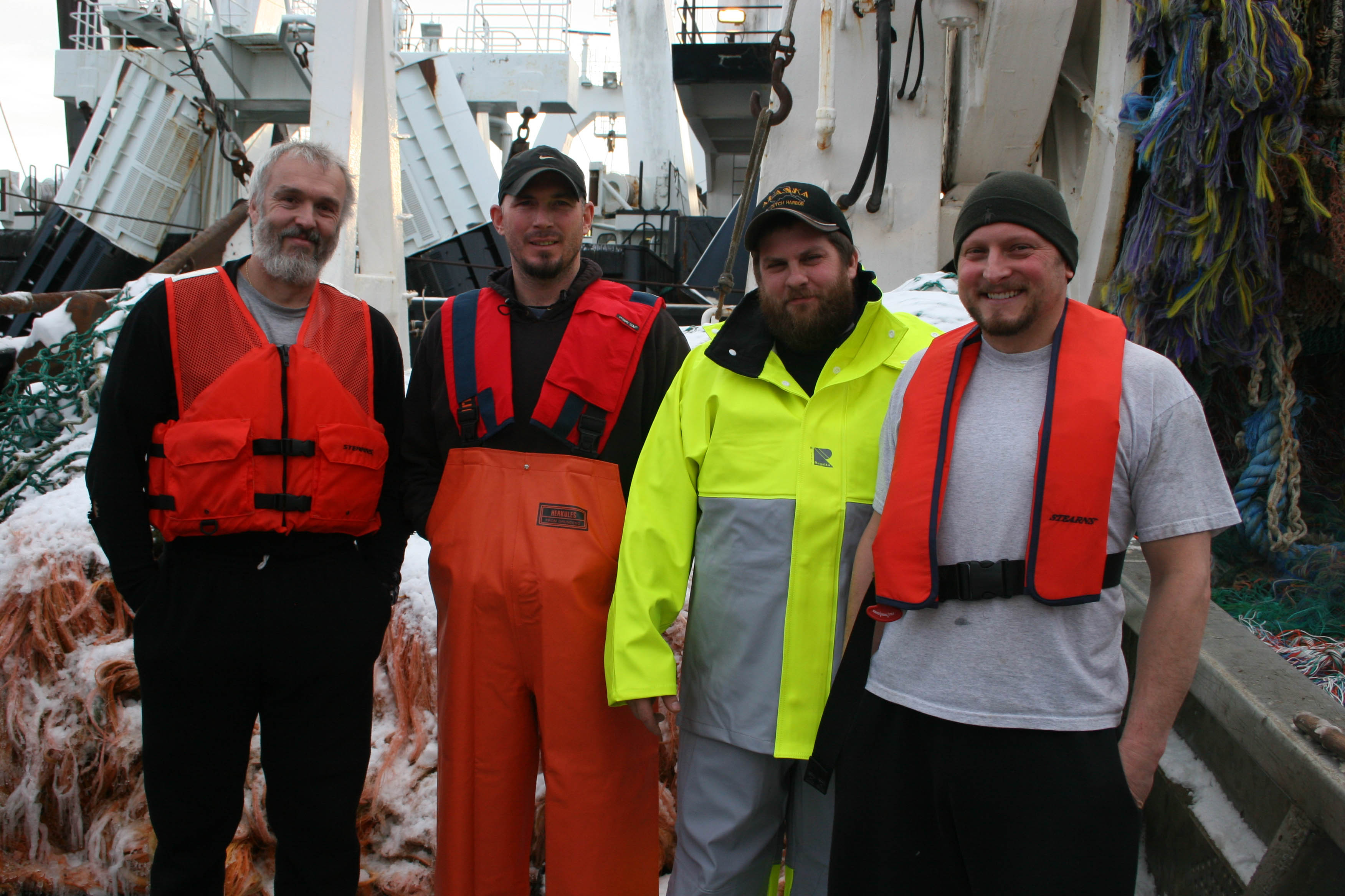 Trawl fishermen from the F/V Sea Dawn show off the personal flotation devices they wore a part of a NIOSH evaluation study in 2009.